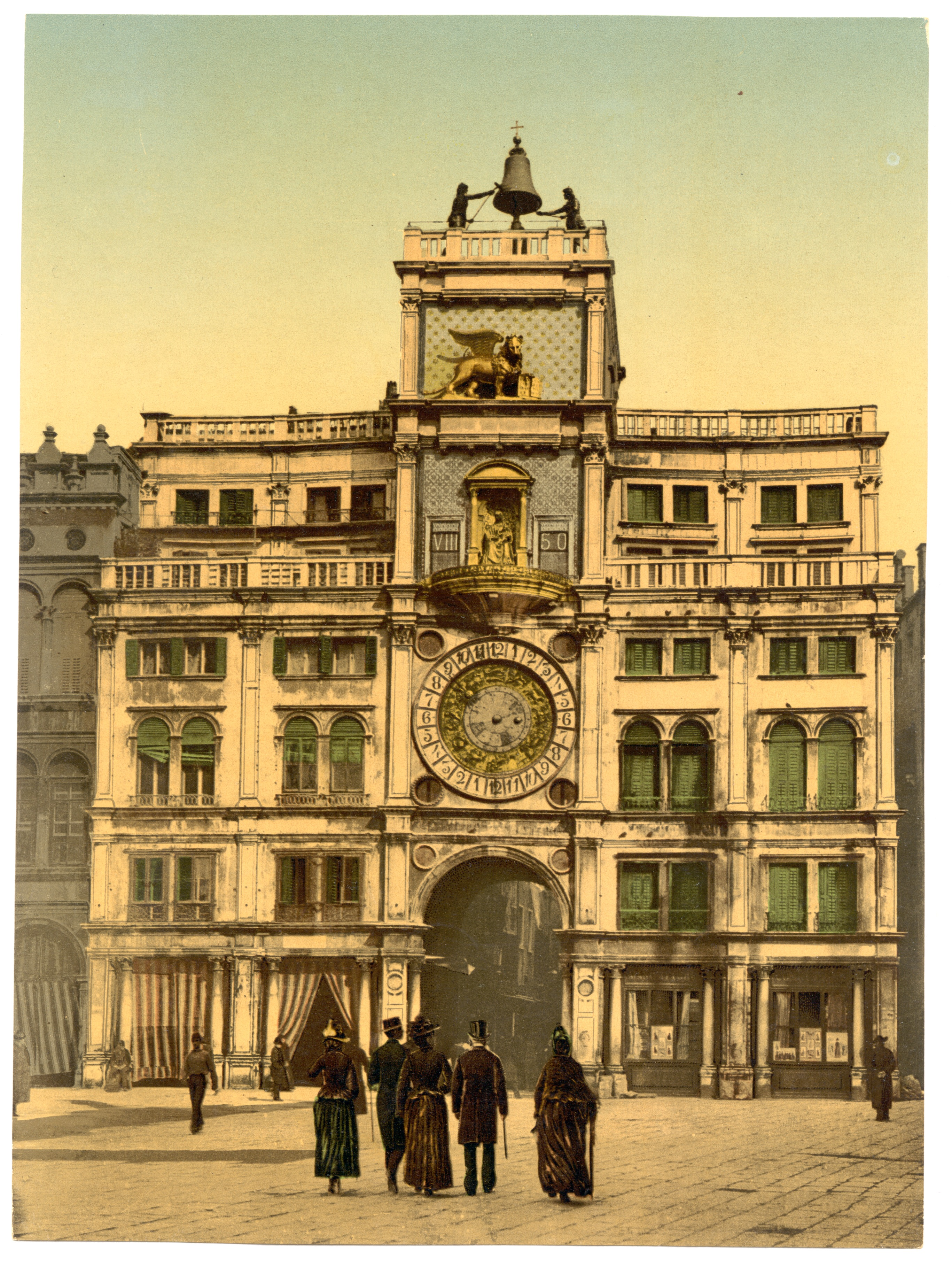 More information about the Photochrom Print Collection is available at Forms part of: Views of architecture and other sites in Italy in the Photochrom print collection.; Title from the Detroit Publishing Co., Catalogue J-foreign section, Detroit, Mich. : Detroit Publishing Company, 1905.; Print no. "1115".